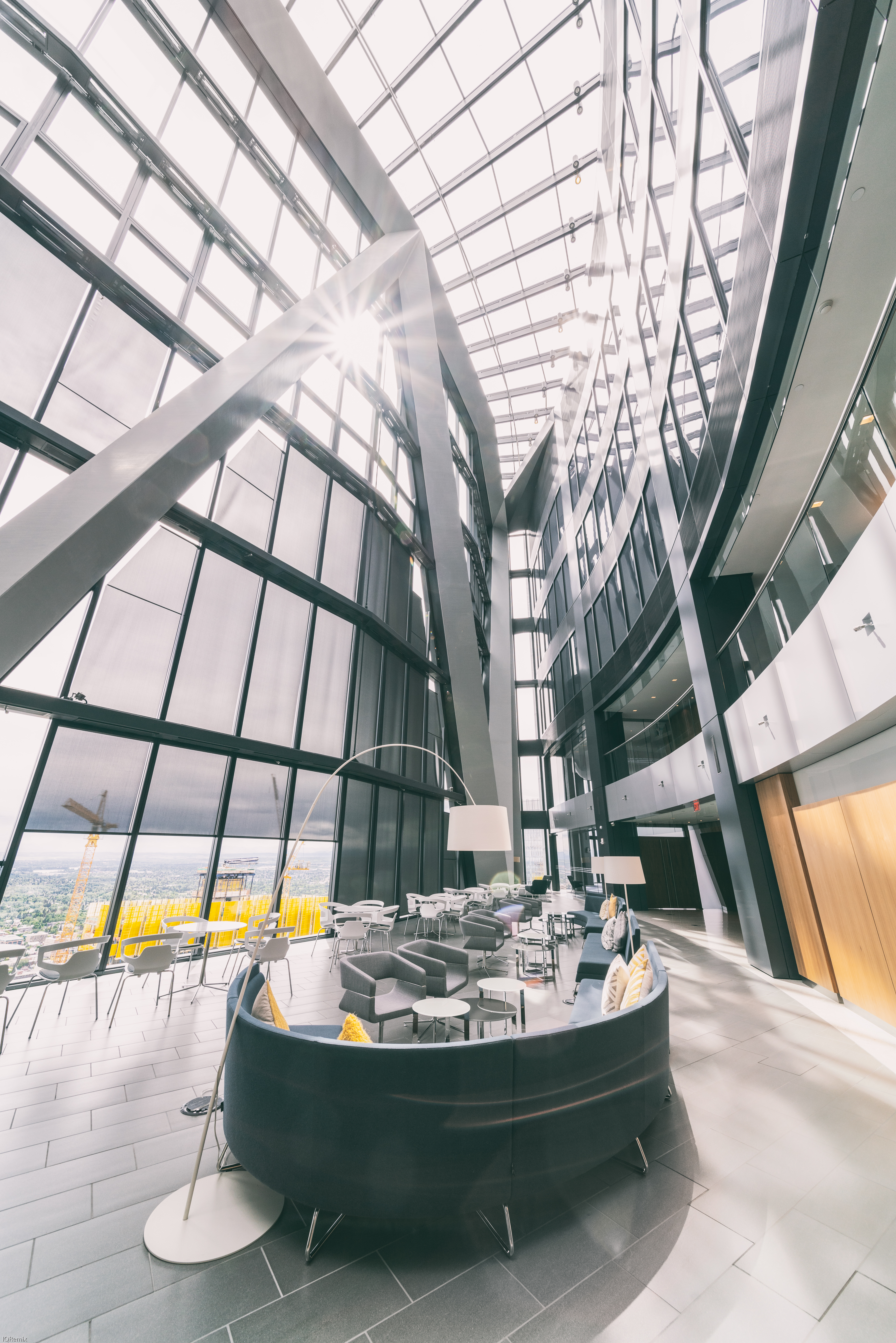 The Bow is a 158,000-square-metre (1,700,000 sq ft) office building for the headquarters of Encana Corporation and Cenovus Energy, in downtown Calgary, Alberta. The 236 metre (774 ft) building is currently the second tallest office tower in Calgary, since construction of Brookfield Place; and the third tallest in Canada outside Toronto. The Bow is also considered the start of redevelopment in Calgary's Downtown East Village. It was completed in 2012 and was ranked among the top 10 architectural projects in the world of that year according to Azure magazine